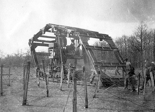 Boirault_machine_underway. One of the early experiments with what was to become tank locomotion.